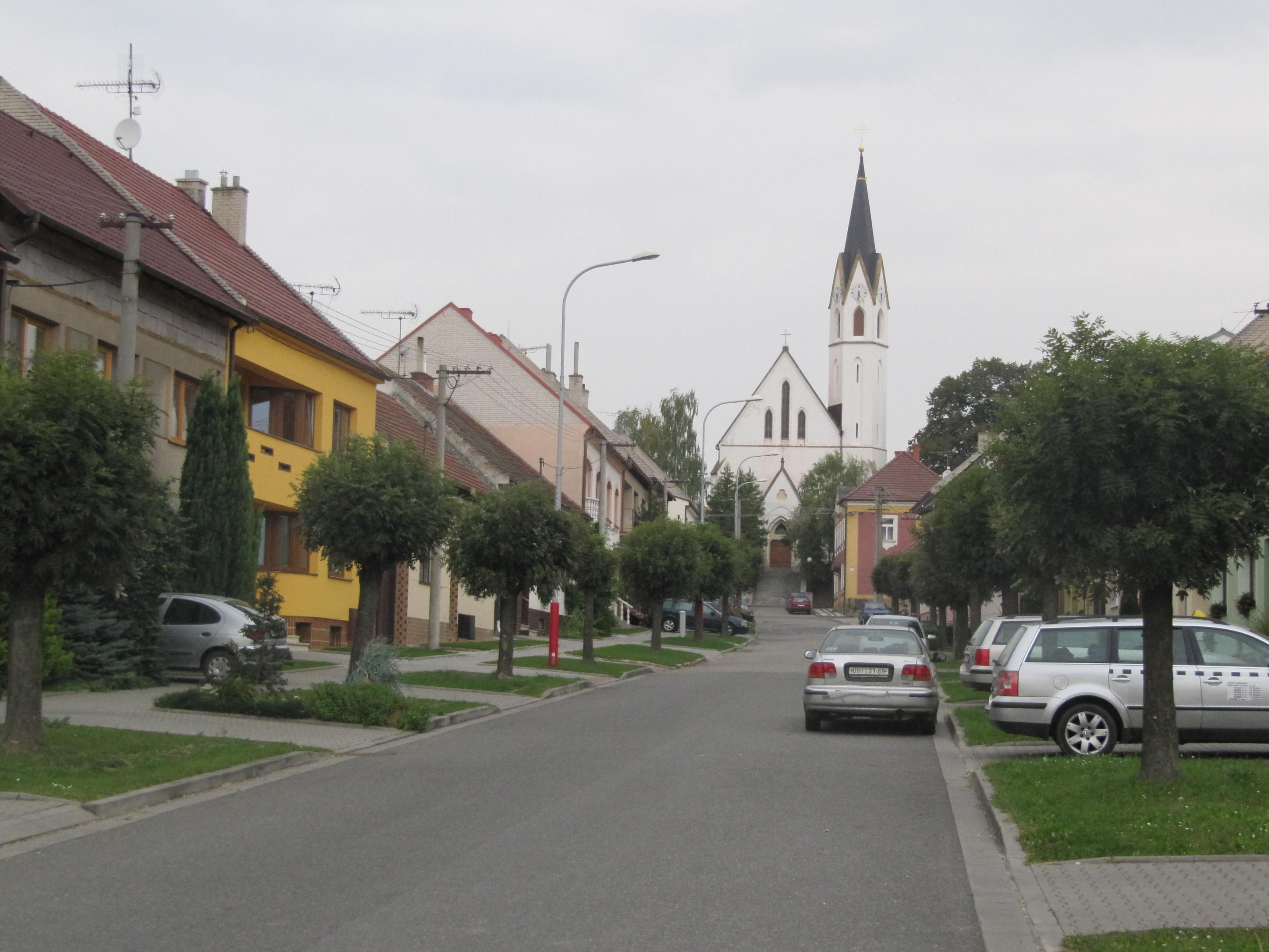 Dolní Němčí in Uherské Hradiště District, Czech Republic.St.-Philip and Jacob-church. This photograph was taken within the scope of the third year of the 'Czech Municipalities Photographs' grant.